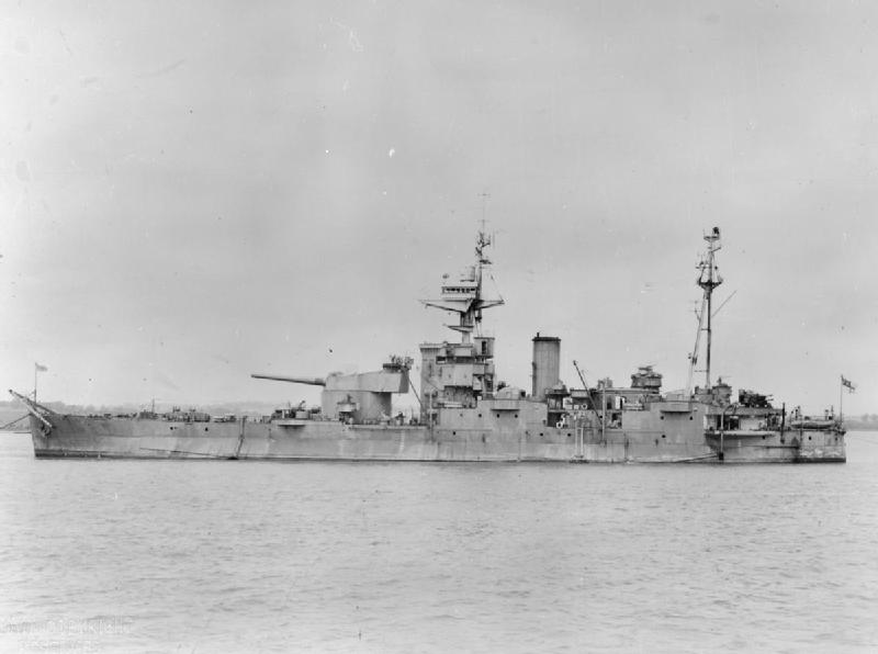 HMS ABERCROMBIE moored in the Medway as an accommodation ship.